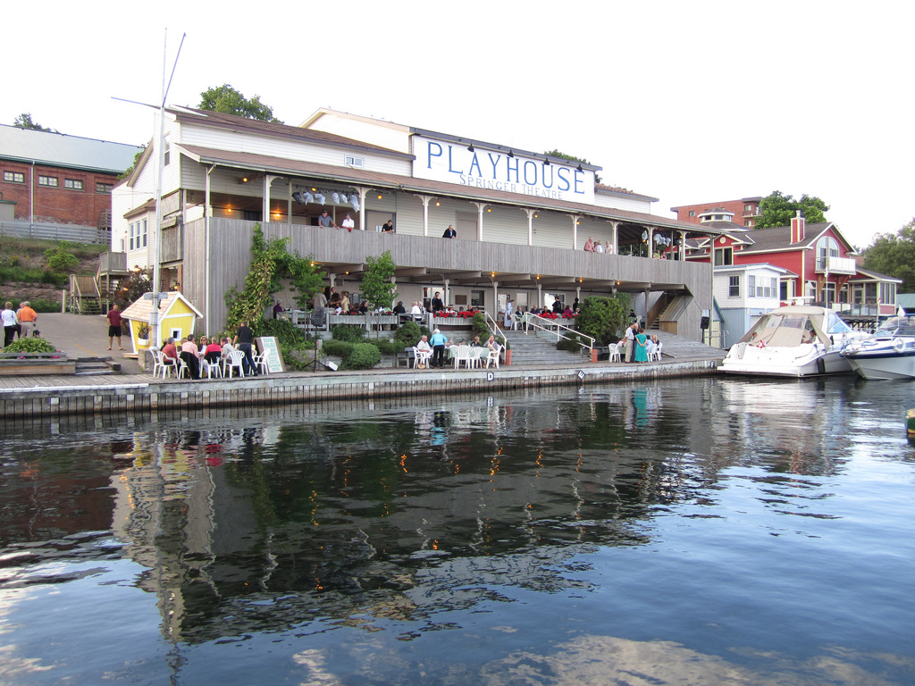 Thousand Islands Playhouse main theatre in Gananoque, Ontario